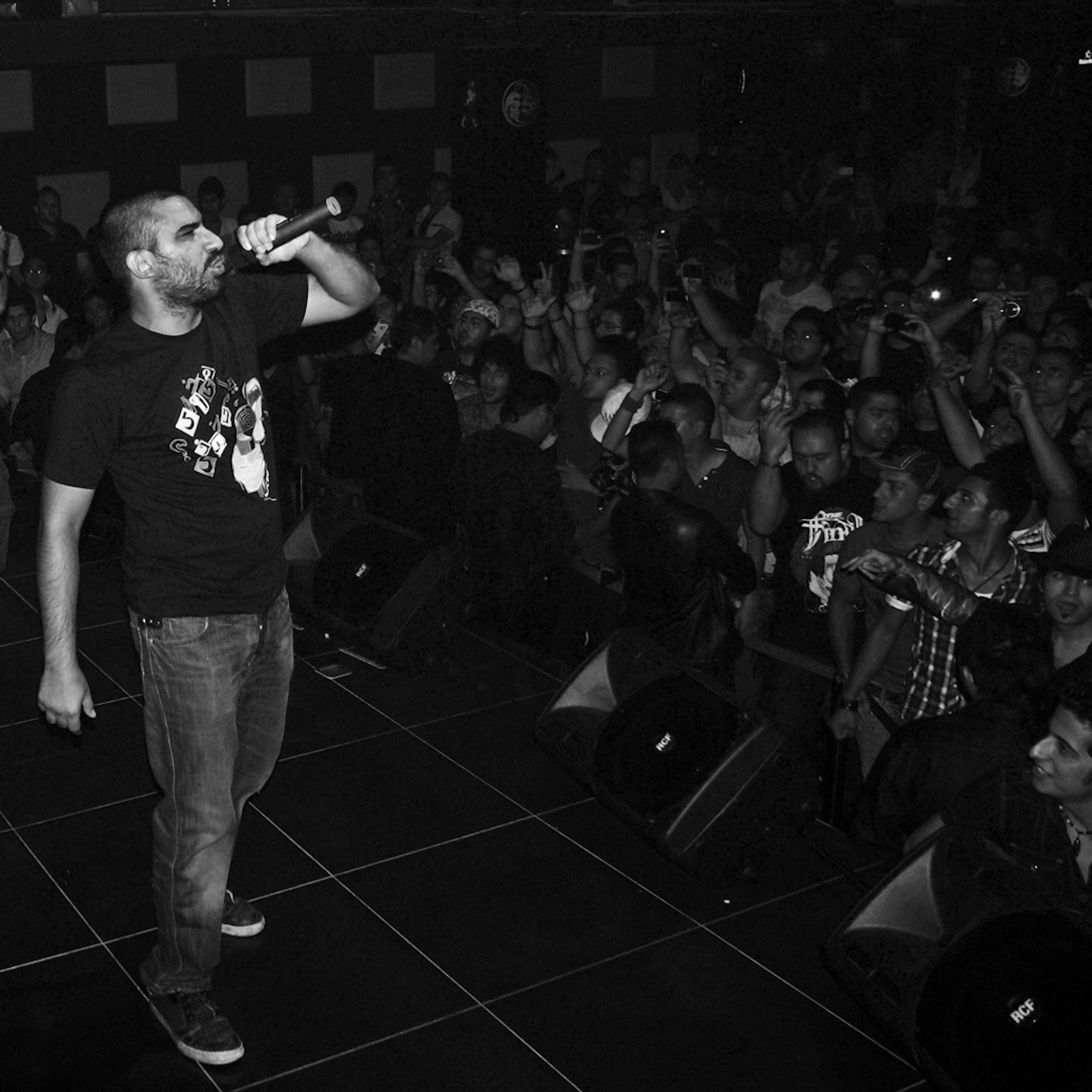 Hichkas Anjam Vazife Tour